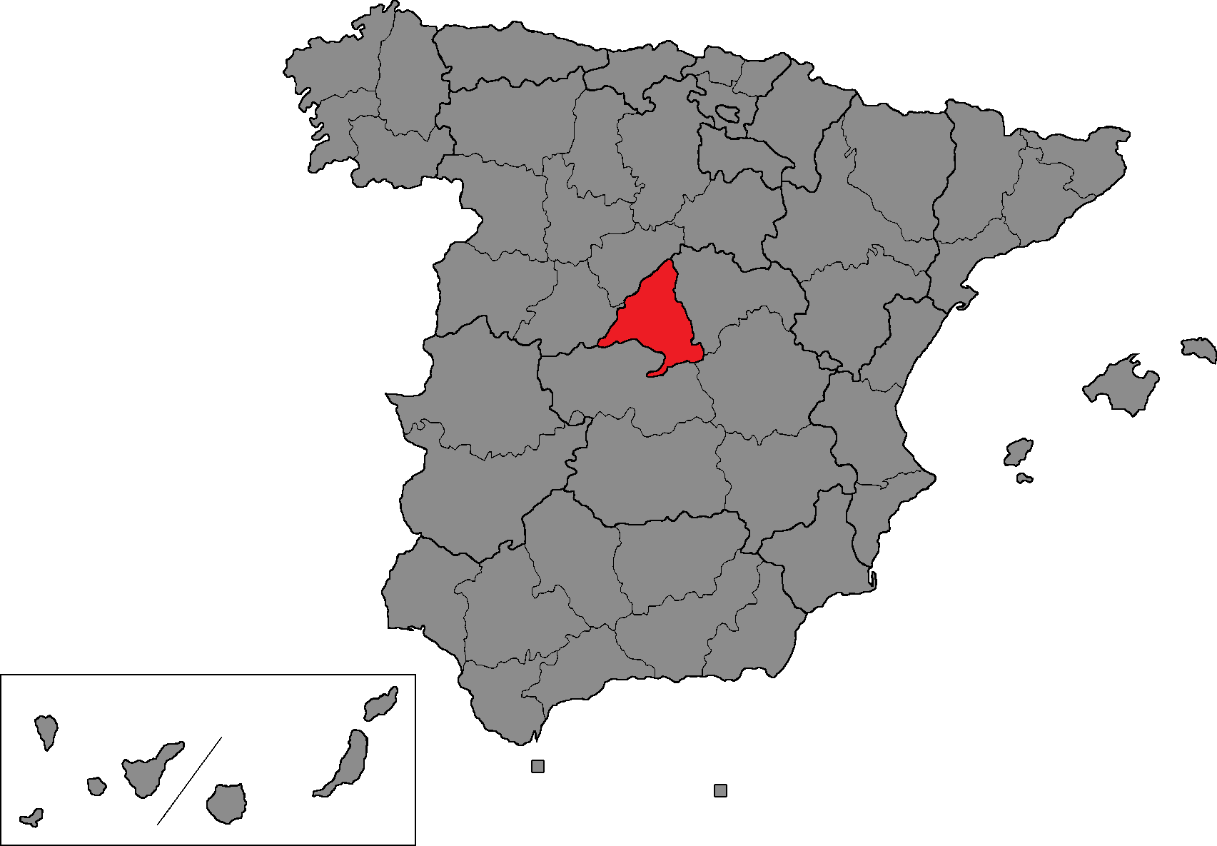 Spanish Congress of Deputies district of Madrid.